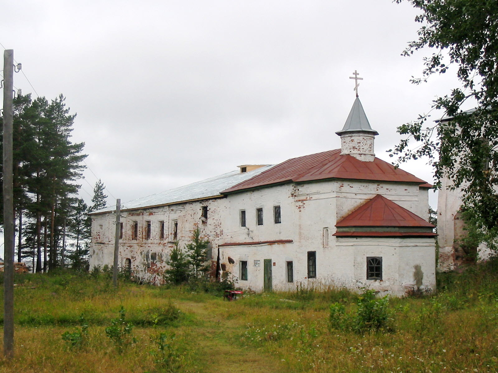 Kiy-island (Кий-остров), White Sea, Russia Onega Monastery of the Cross (Онежский Крестный Монастырь) Church over the well Надкладезная церковь (1661) July-August 2006